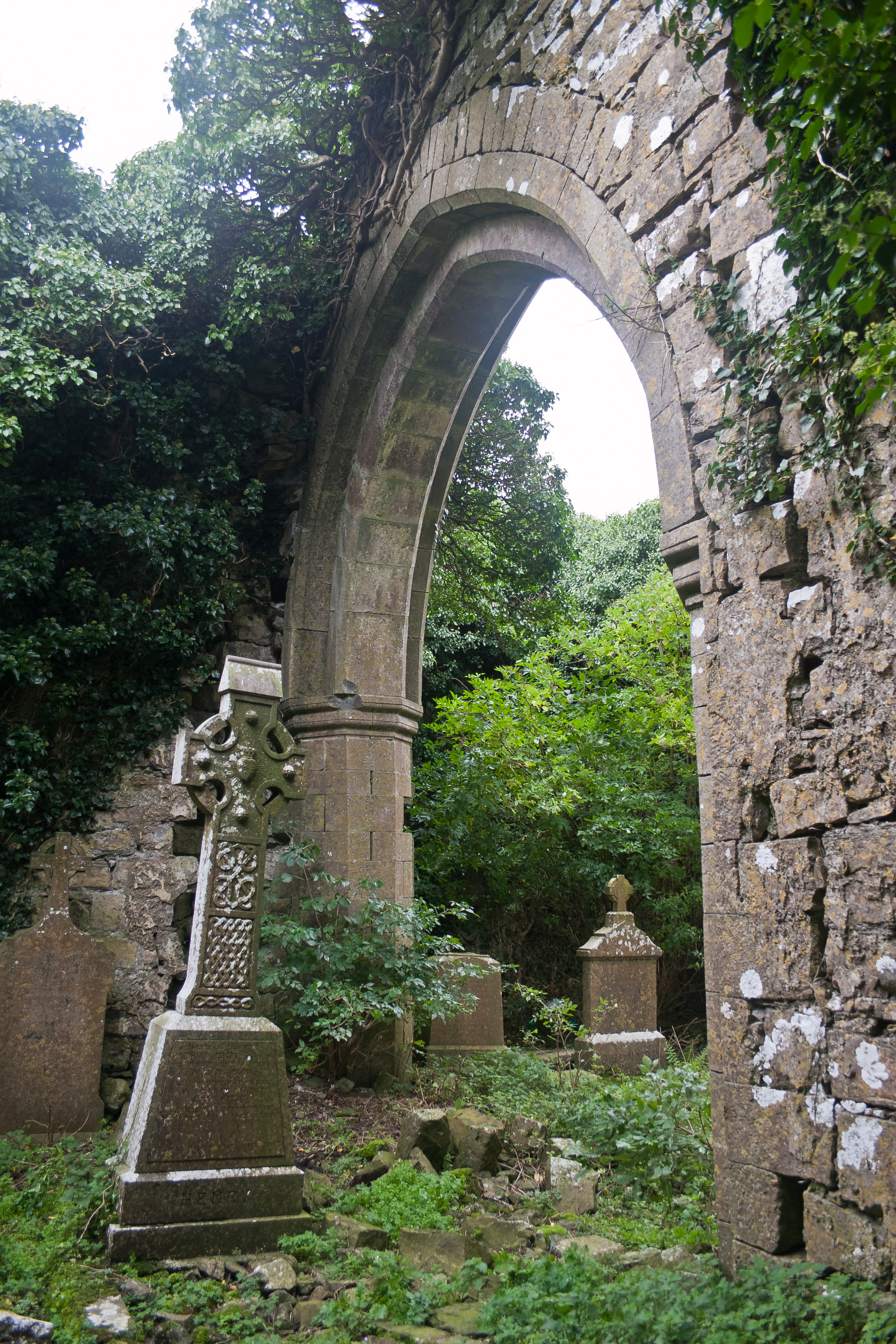 View from the south transept through the 16th-century arch into the nave.